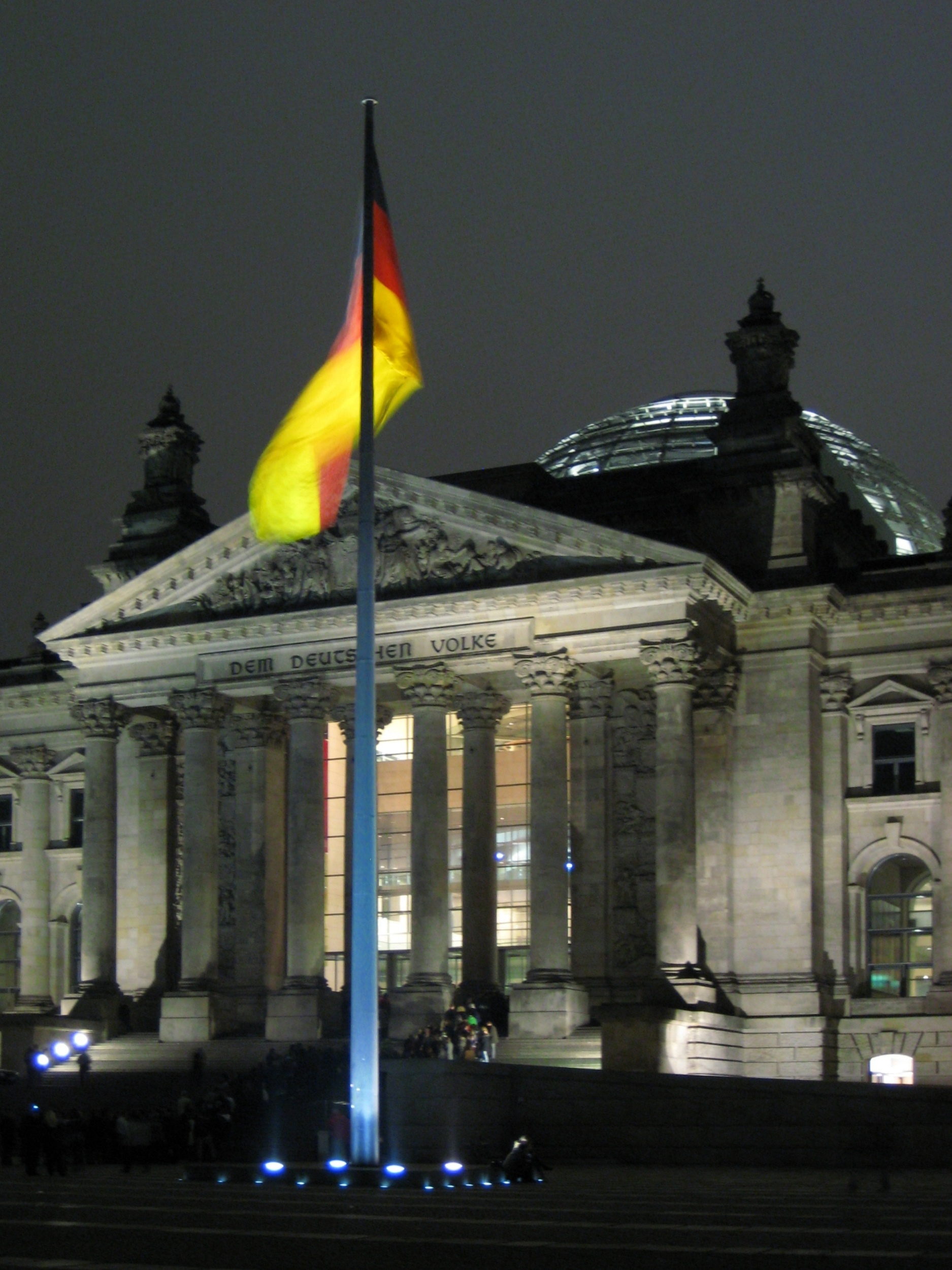 Reichstag building